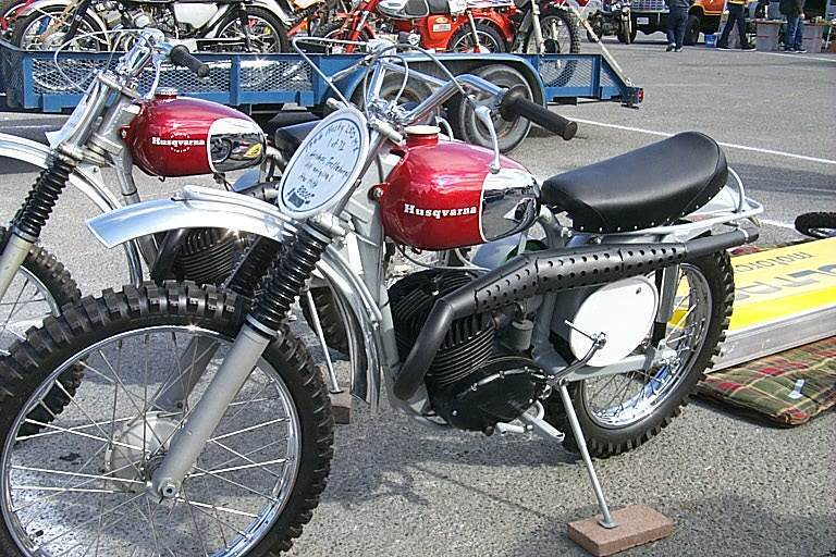 A pair of Husqvarna motocross motorcycles, by 1964?